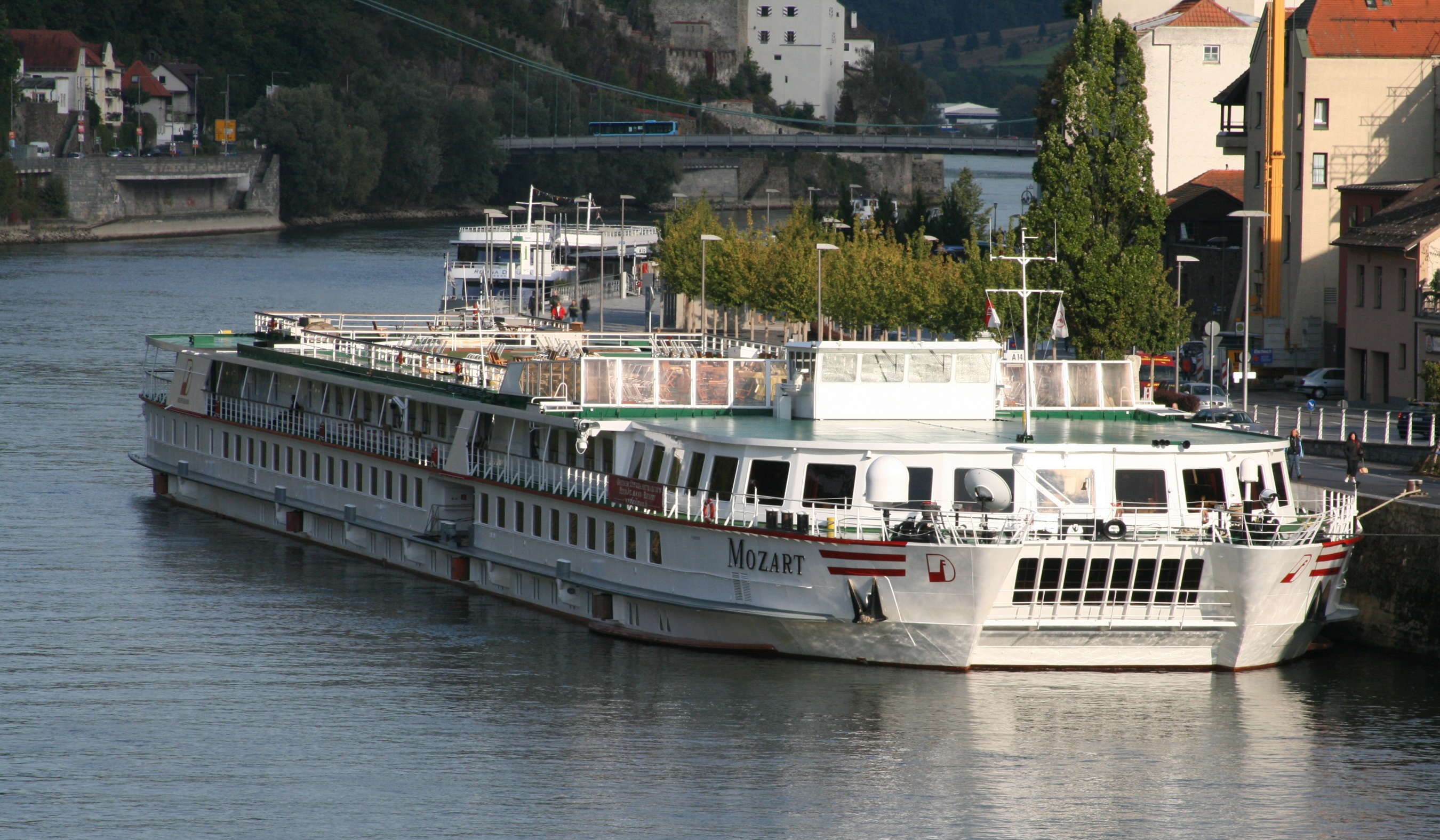 MS Mozart in Passau At 22.89 meters (slightly more than 75 feet), Mozart is considerably wider than most river cruisers, typically 40 feet wide. The extra width allows for larger staterooms, public rooms, a spa facility with pool and jacuzzi as well as a promenade circling deck two. Pictured in Passau.